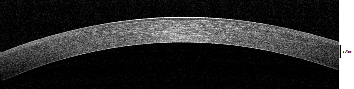 The healthy cornea of a 24 year old male (cross-section view). Corneal epithelium, stroma, and endothelium can be clearly seen. This image is released to Wikimedia with patient consent. Imaged in-vivo with an Optovue iVue Spectral Domain Optical Coherence Tomographer (SD-OCT) at the office of Drs. Harry Wiessner, Steven Davis, Daniel Wiessner, and Eric Wiessner in Walla Walla, WA, USA.